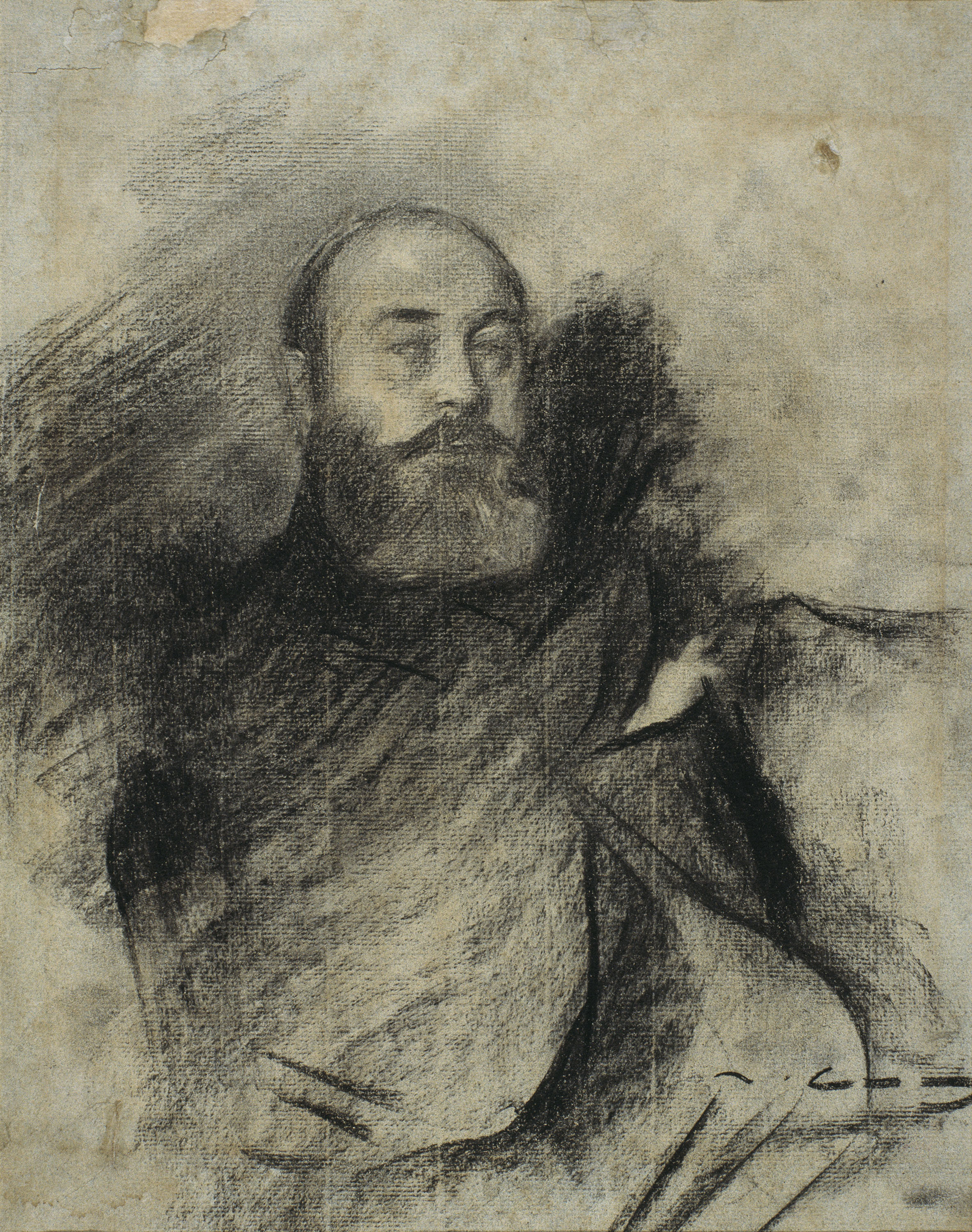 Portrait by Ramon Casas conserved at MNAC in Barcelona.